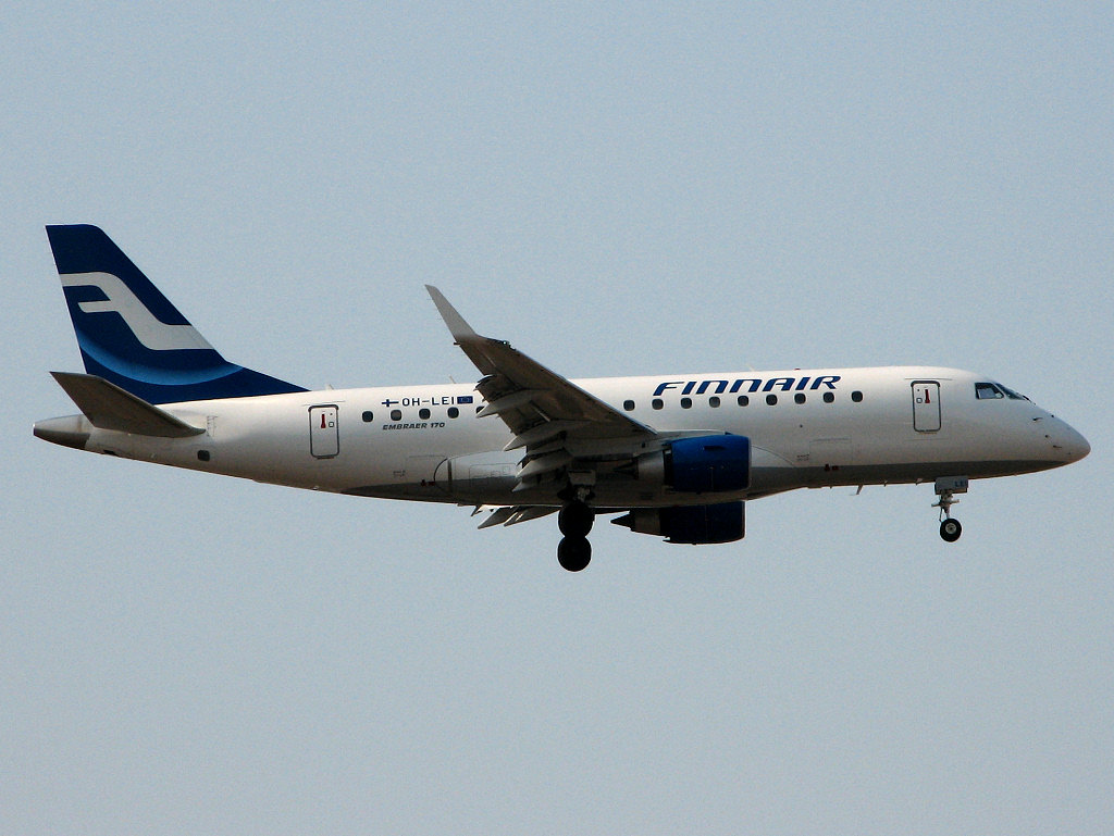 Finnair Embraer 170 landing to Helsinki-Vantaa airport